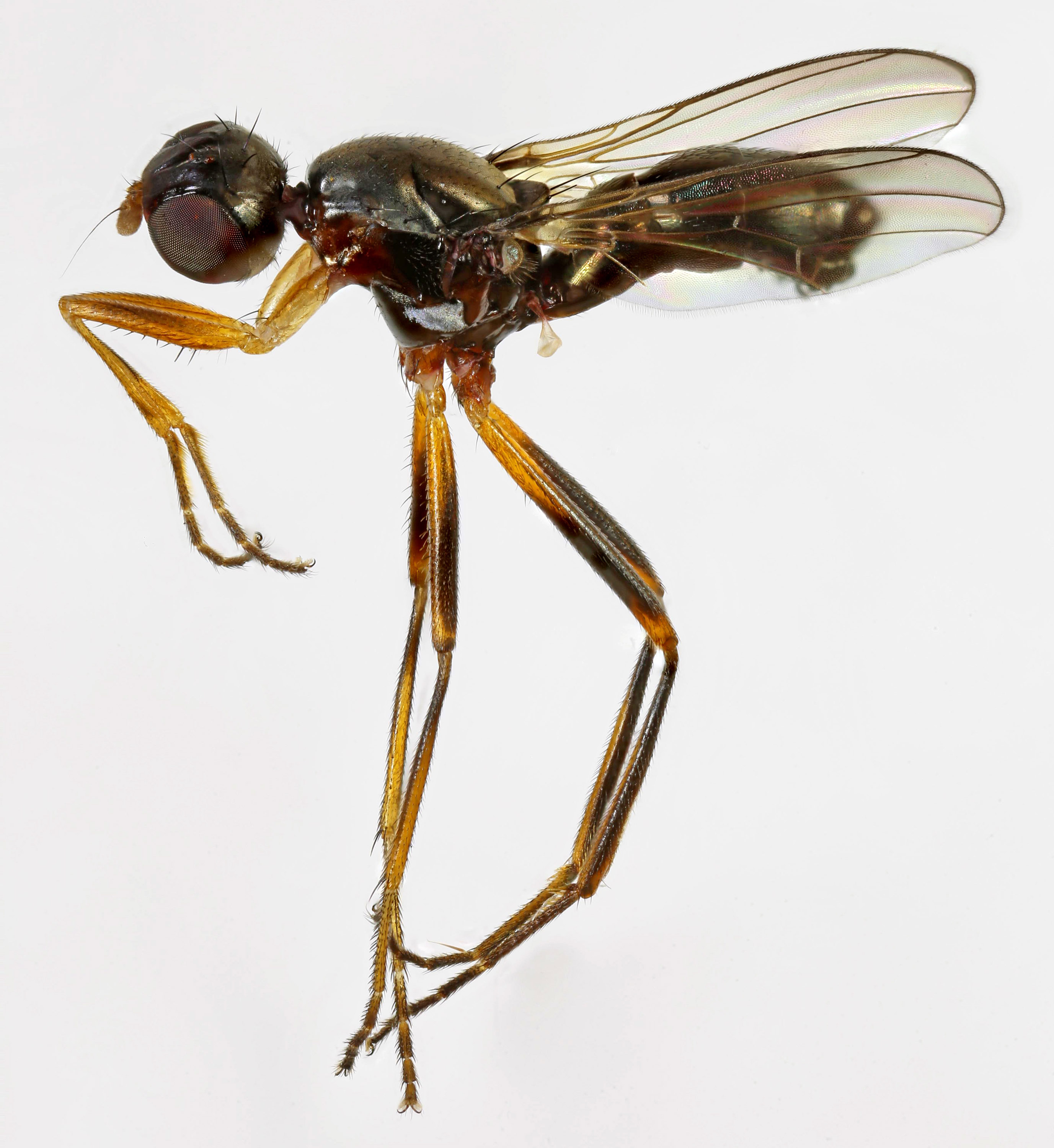 Nemopoda nitidula, Glan-y-wern, North Wales, Aug 2016